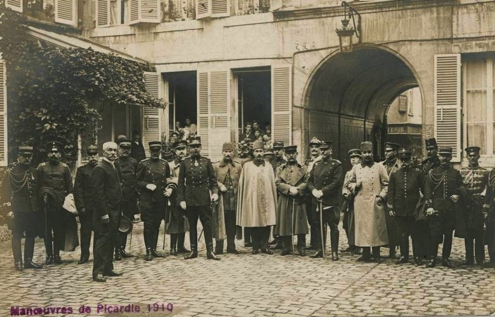 Group picture of military officers from various countries (France, Germany, Austria-Hungary, Italy, Turkey, Great Britain, Japan, Russia, etc.) during the Grand manoeuvres of September 1910 in Picardy, France. In the center, wearing a white cape, Ali Fethi of the Young Turks. On his right, chief-of-staff Mustafa Kemal, the future Kemal Atatürk. Postcard issued in 1910.